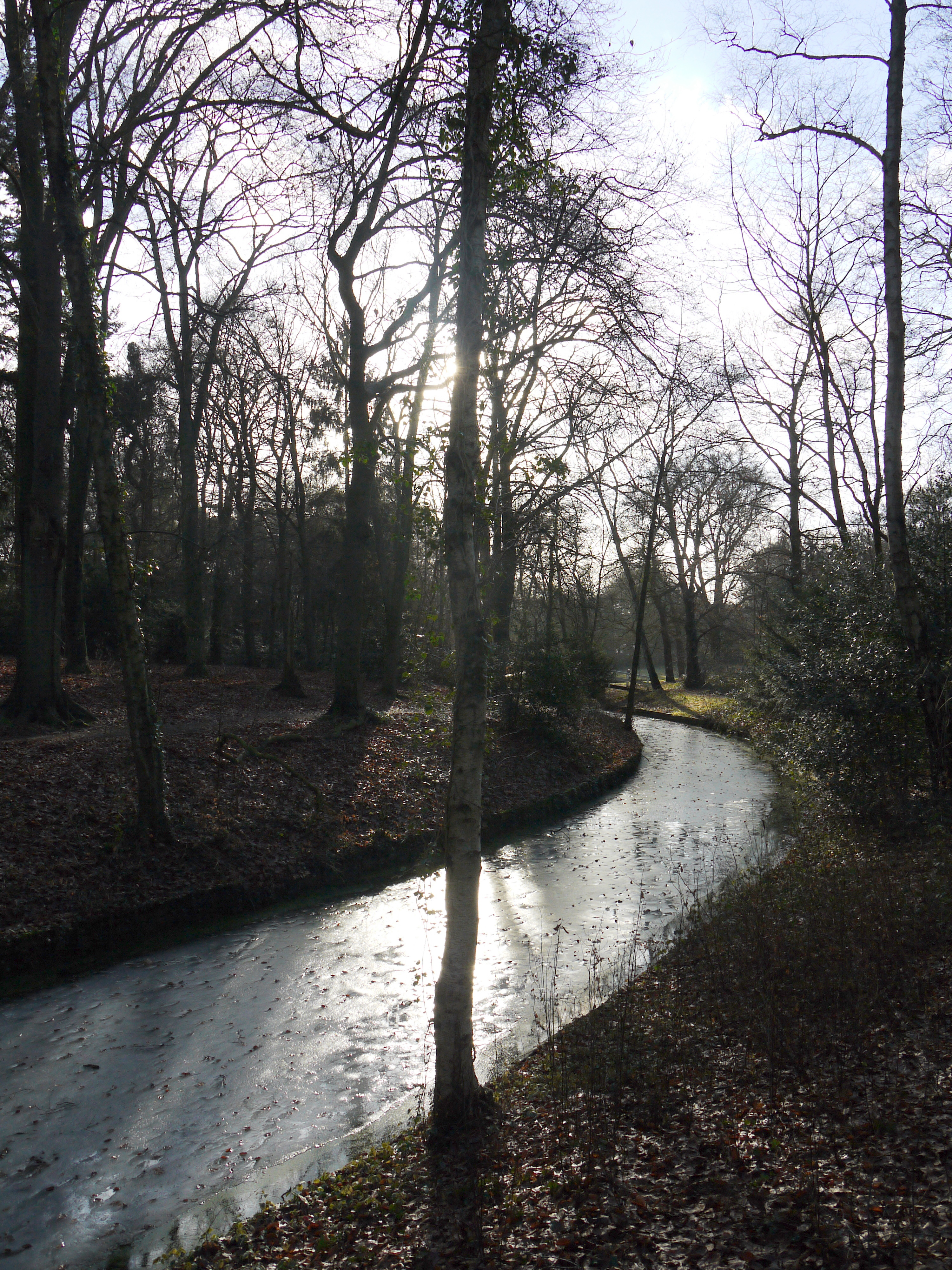 Park of Pavia, an estate in Zeist.